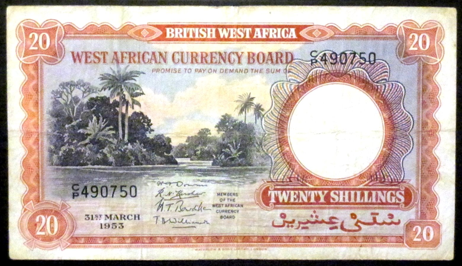 1953 British West Africa Currency Board 20 shilling banknote.